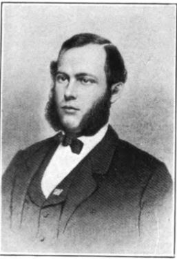 Hamilton Wallis